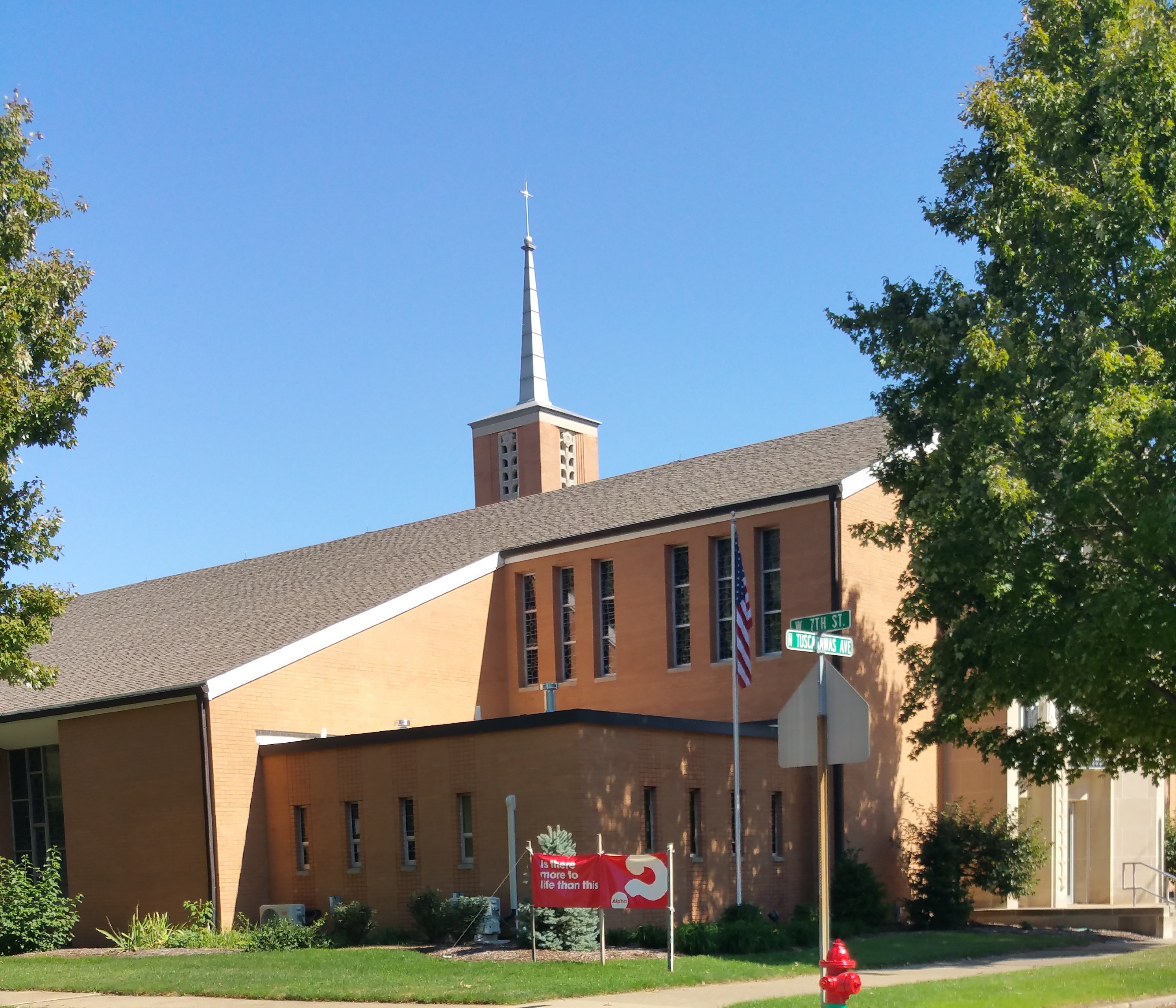 The image is of an Alpha course sign for Saint Joseph Catholic Church, which offers the program. I clicked this picture on September 20, 2015.